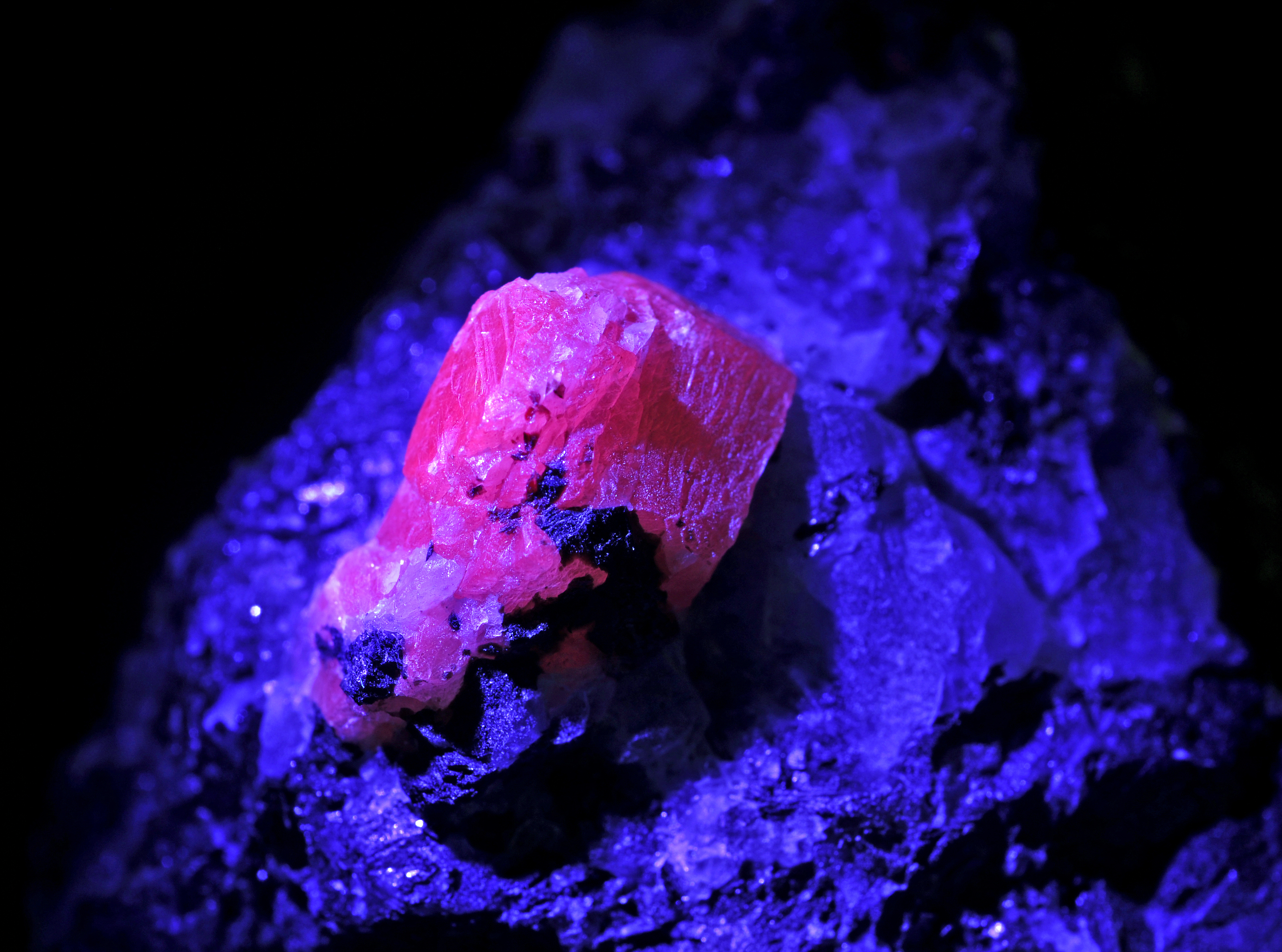 corundum var. ruby, garnet var. almandin, mica var. biotite, feldspar var. plagioclase under UV light long waves : Khit Ostrov (Khit, Island), Northern Karelia, Karelia Republic, Northern Region, Russia